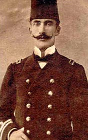 Fuat Hüsnü Kayacan (1879-1963) the first ever Turkish footballer